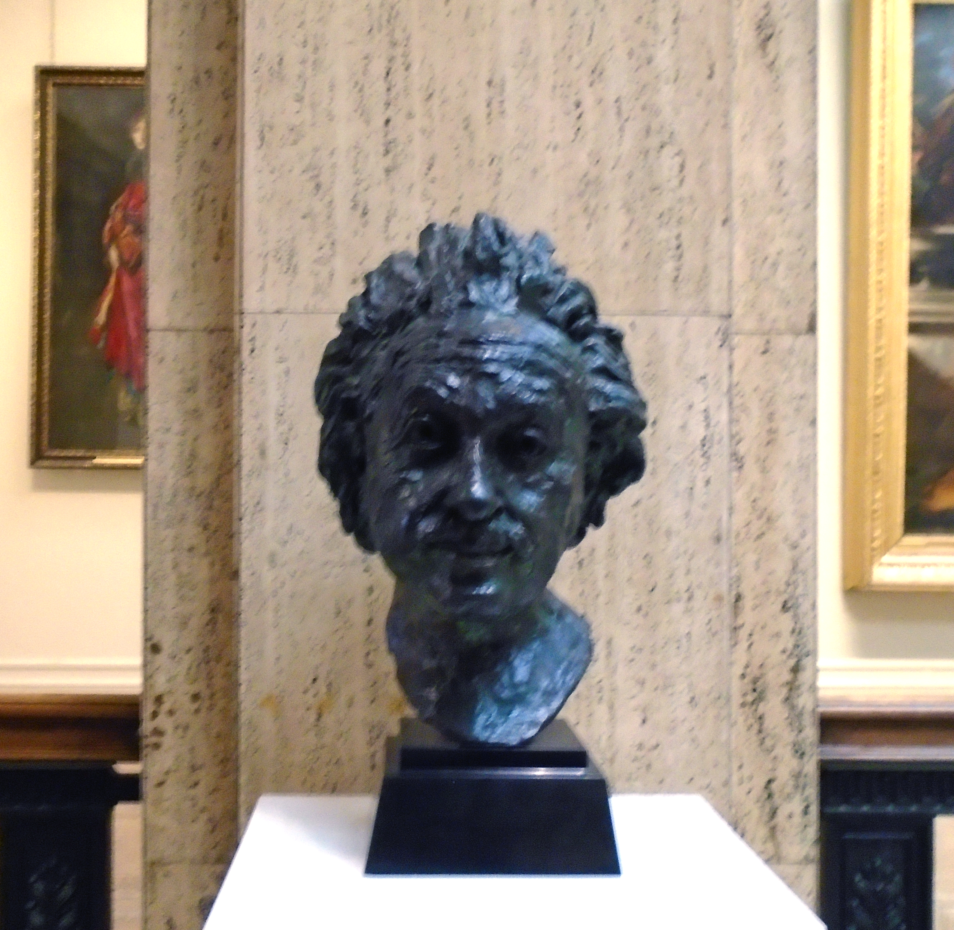 Albert Einstein by Jacob Epstein, on show at the Walker Art Gallery, Liverpool